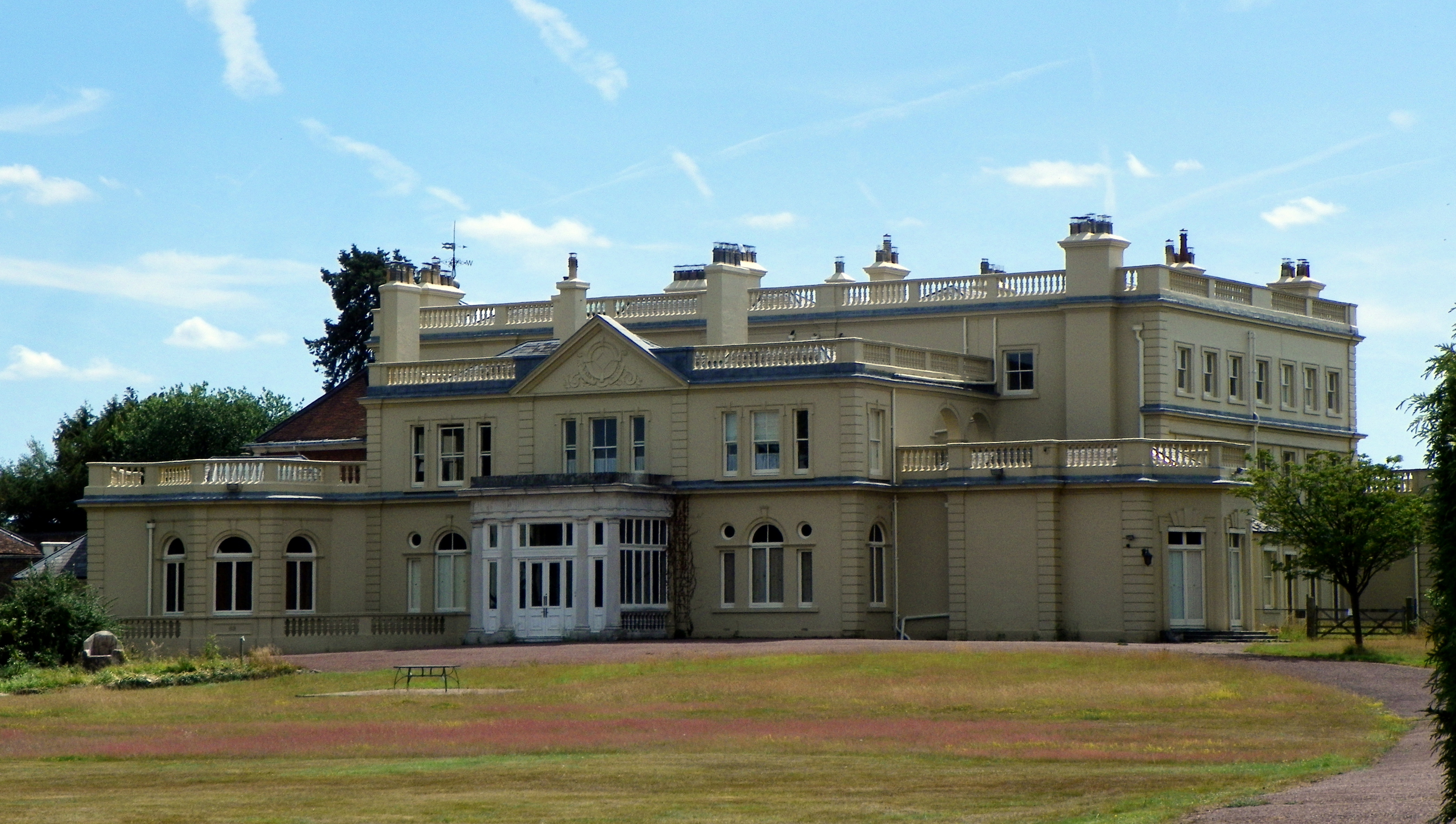 Childwickbury Manor in Hertfordshire, a Grade II listed building and the former home of Stanley Kubrick.